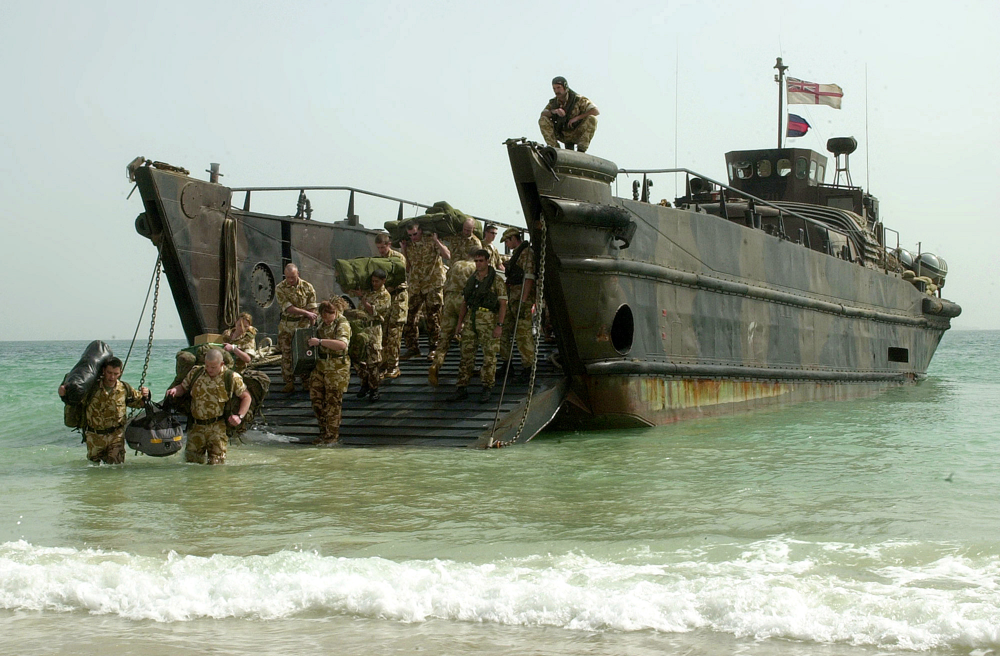 Feb. 26, 2003 Members of the British Royal Marines come ashore at Tijuana Beach, Kuwait from a Royal Navy Landing Craft, Utility (LCU). Members assigned to the 3rd Surgical Group from the 3rd Commando Brigade are landing at Tijuana Beach to help support Operation Enduring Freedom.